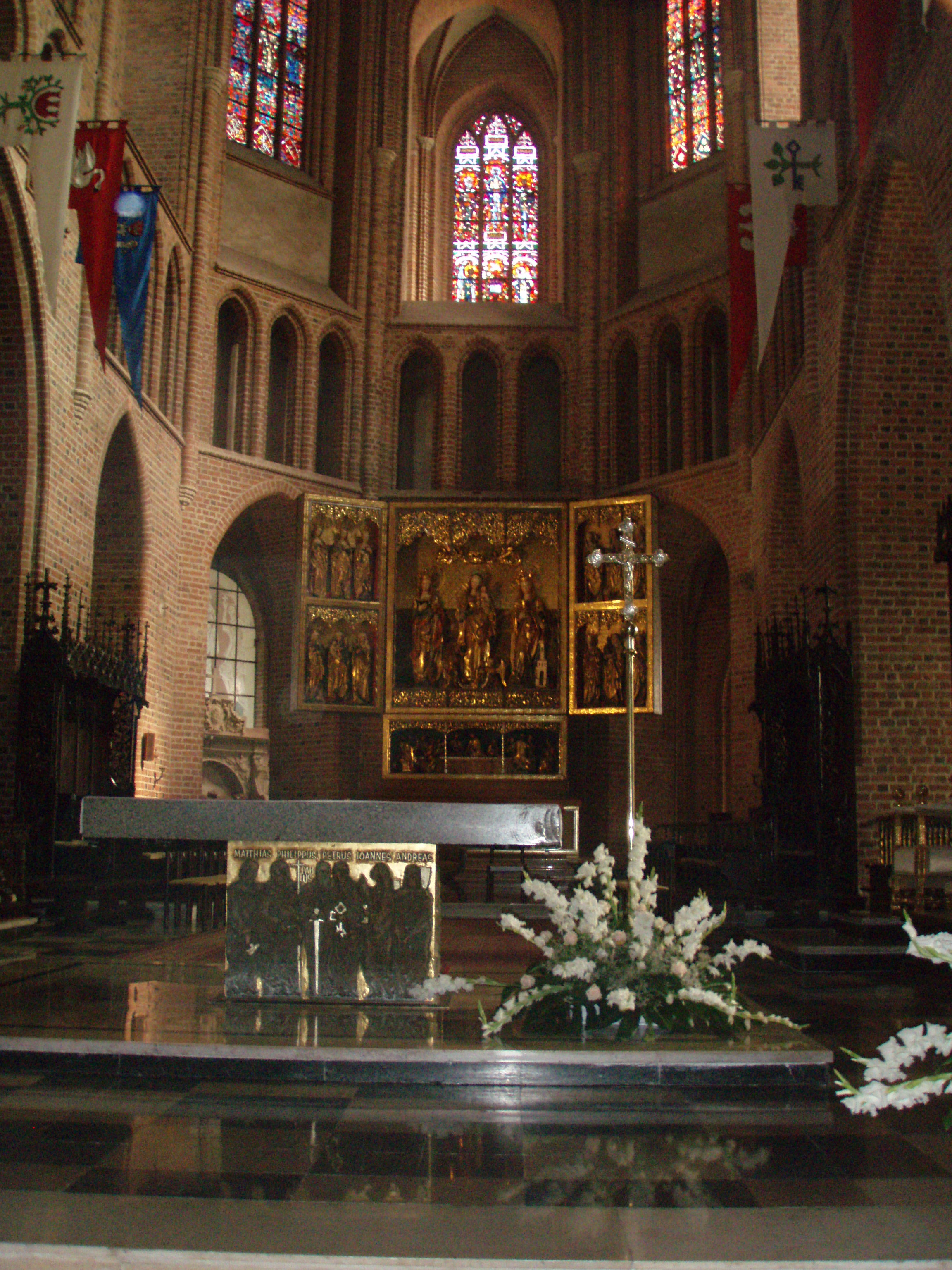 The Altar adorned with gold at the Poznań Cathedral, Poland.